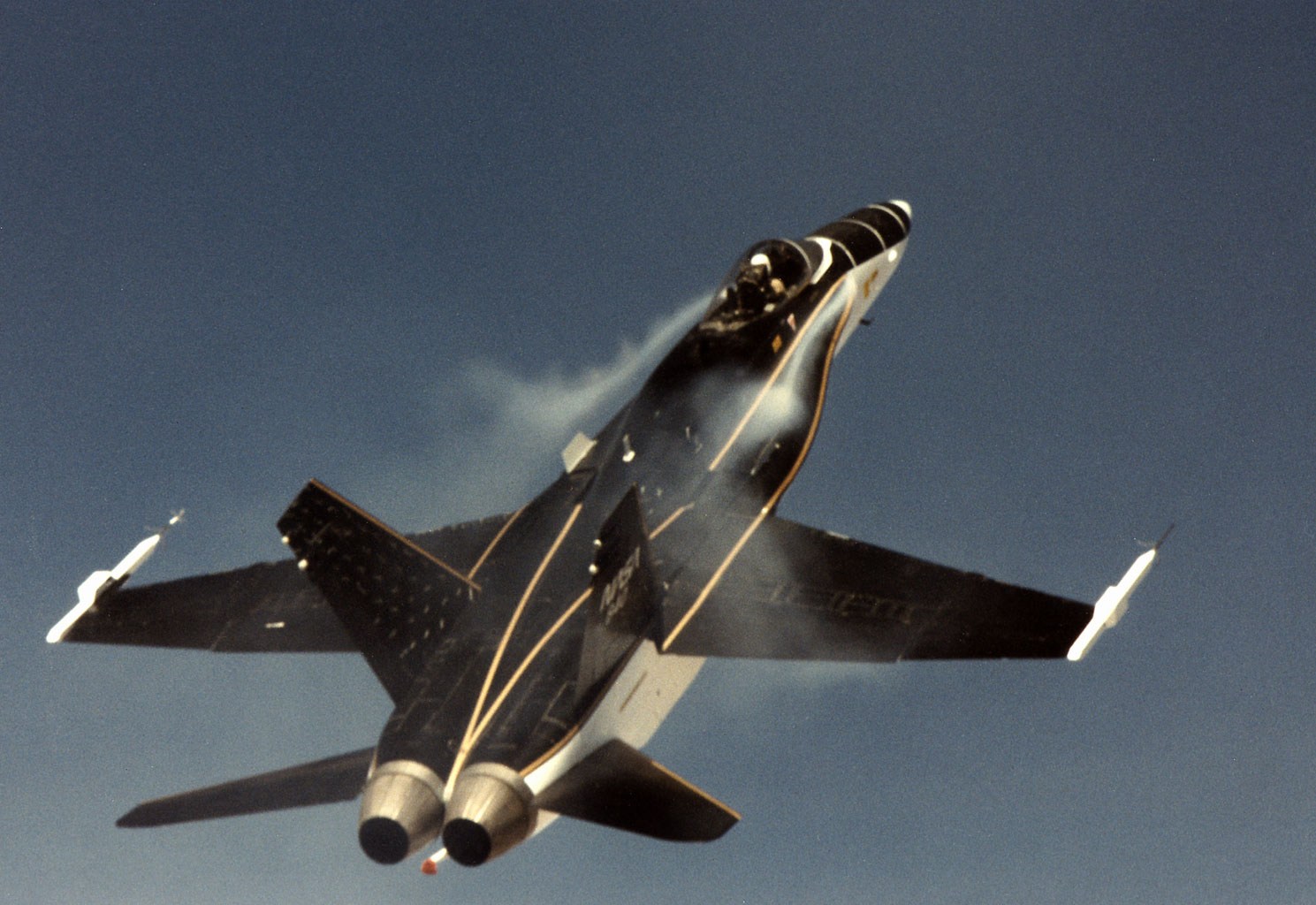 Flow visualization smoke marks vortex flows along the leading edge extension on an F/A-18 flown by NASA's Dryden Flight Research Center, Edwards, California, in its High Alpha Research Vehicle (HARV) program. The aircraft is at a high angle of attack in this photo. The aircraft was modified with a thrust vectoring system to further investigate high angle of attack flying. The program was conducted jointly with NASA's Langley Research Center.